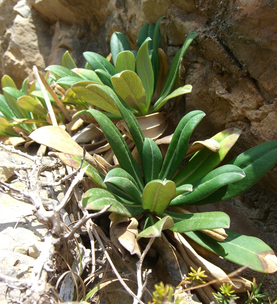 Pseudoscabiosa limonifolia, endemic plant of western Sicily and Egadi